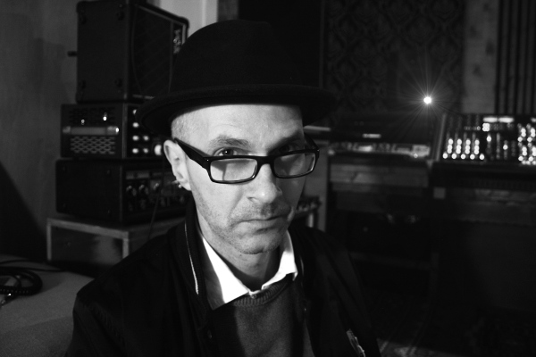 Tom Körbler, self portrait